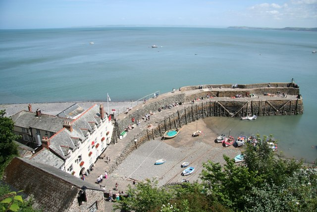 Clovelly Harbour Harbour wall and Red Lion view in Clovelly